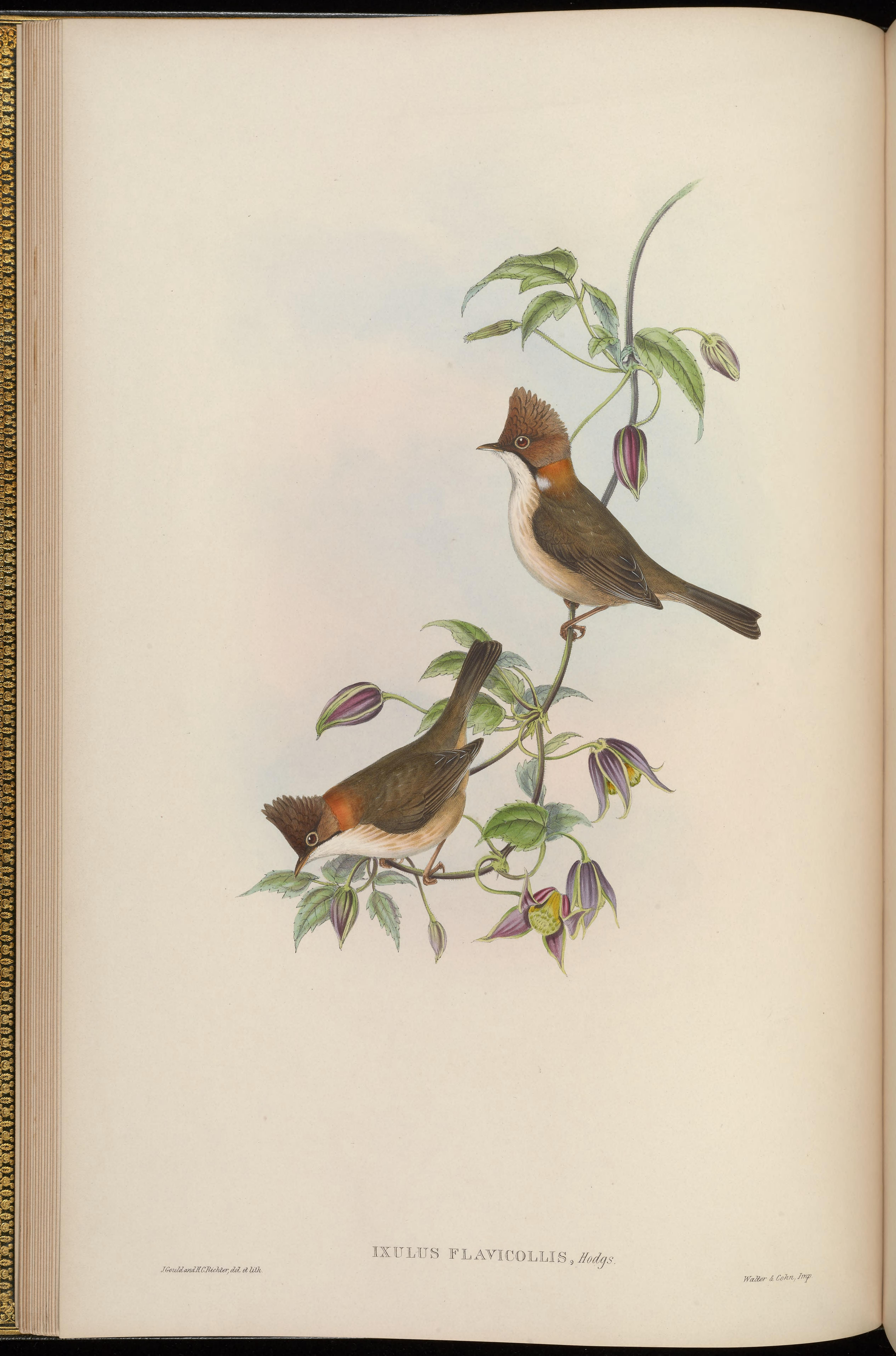 Ixulus flavicollis = Yuhina flavicolluis[1]